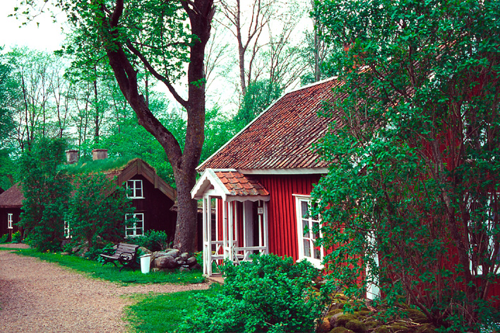 Open air museum Åsle Tå, Falköpings municipality, Sweden